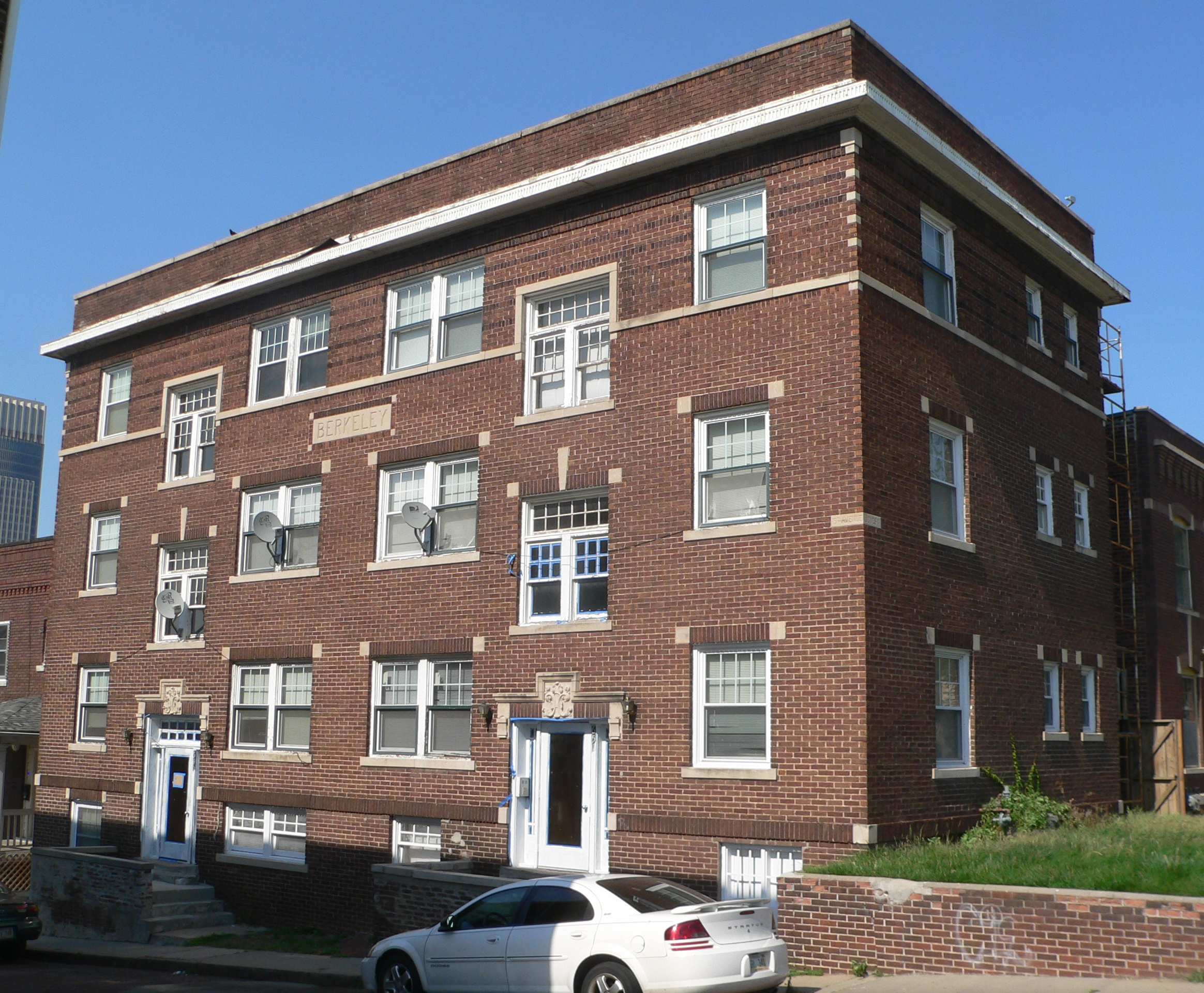 Berkeley Apartments, located at 649 S. 19th Ave. (northeast corner of Jones St. and 19th Ave.) in Omaha, Nebraska; seen from the southwest. The south side, at right, faces Jones; the sunlit west side, at left, faces 19th Avenue.